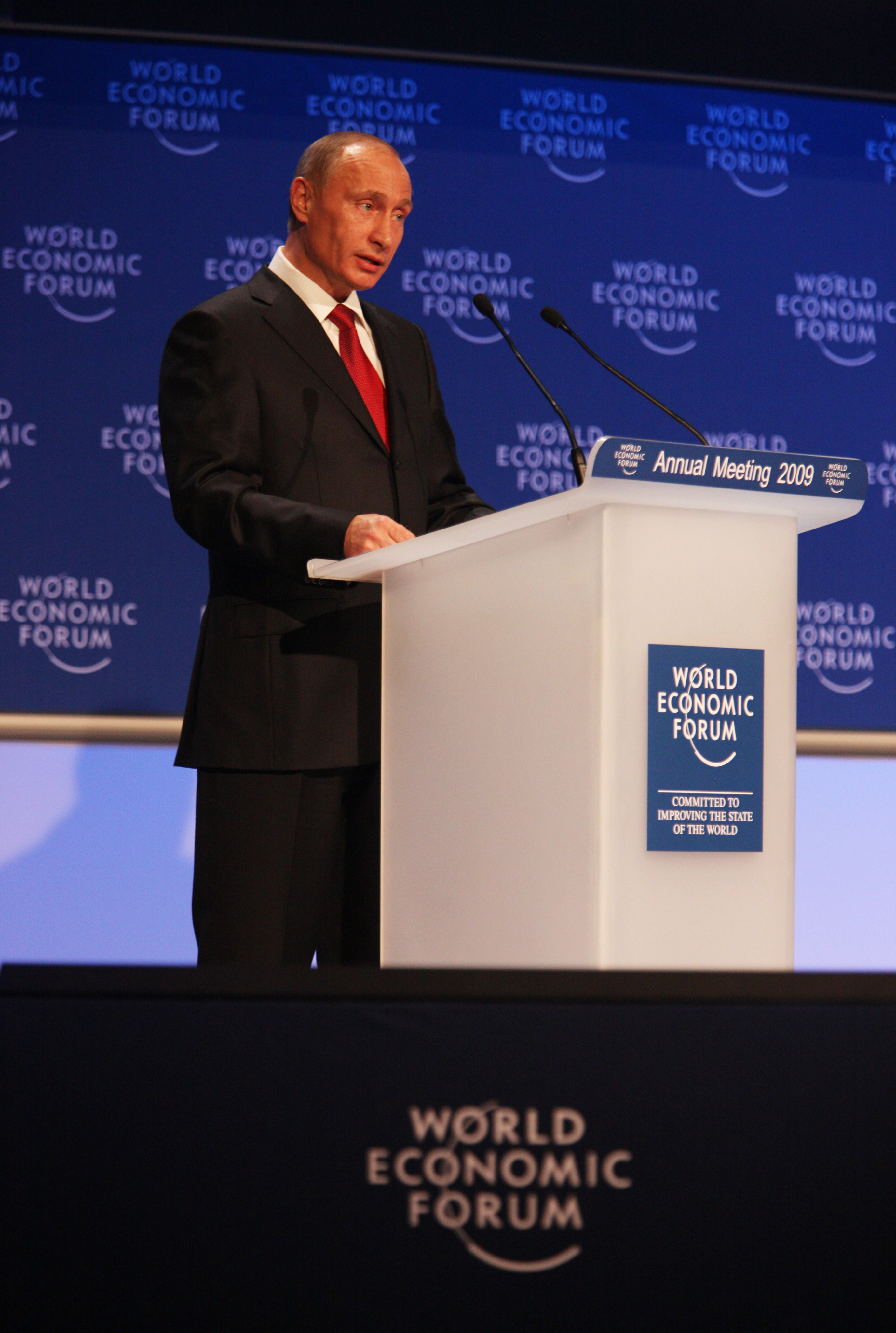 Vladimir Putin, Chairman of the Government, spoken at the World Economic Forum Annual Meeting in Davos Municipality, Graubünden Canton on January 28, 2009.